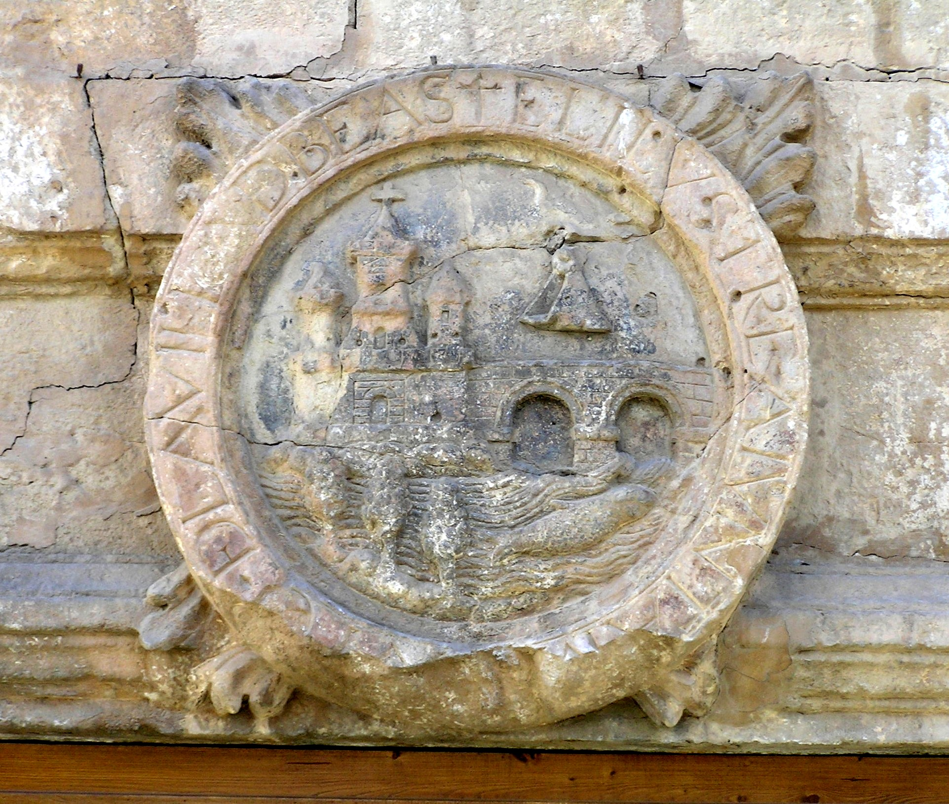 Escudo de Beas sobre la puerta del antiguo Juzgado.